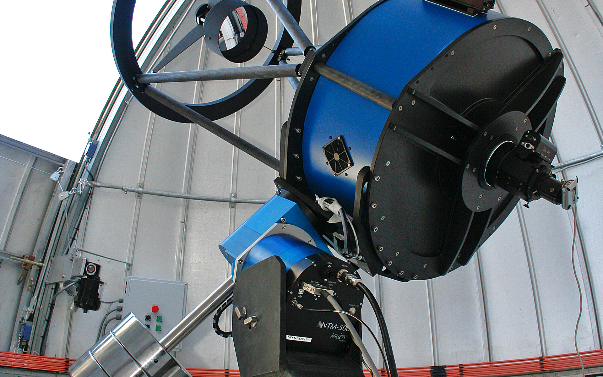 A new robotic telescope had first light at ESO’s La Silla Observatory, in Chile, in June 2010. TRAPPIST (TRAnsiting Planets and PlanetesImals Small Telescope–South) is devoted to the study of planetary systems through two approaches: the detection and characterisation of planets located outside the Solar System (exoplanets) and the study of comets orbiting around the Sun. The 60-cm national telescope is operated from a control room in Liège, Belgium, 12 000 km away.